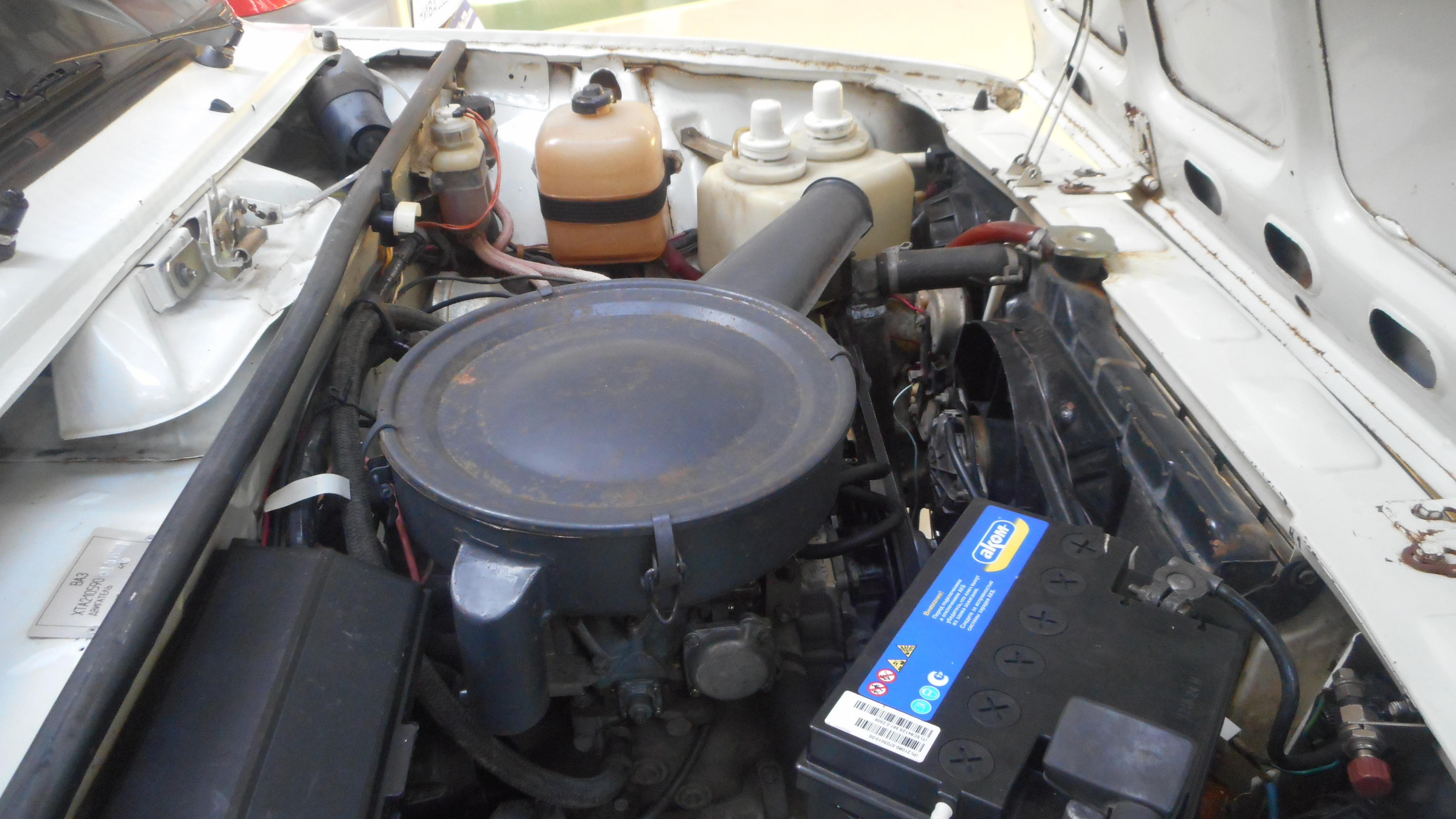 Lada VAZ 2105 special rotor engine